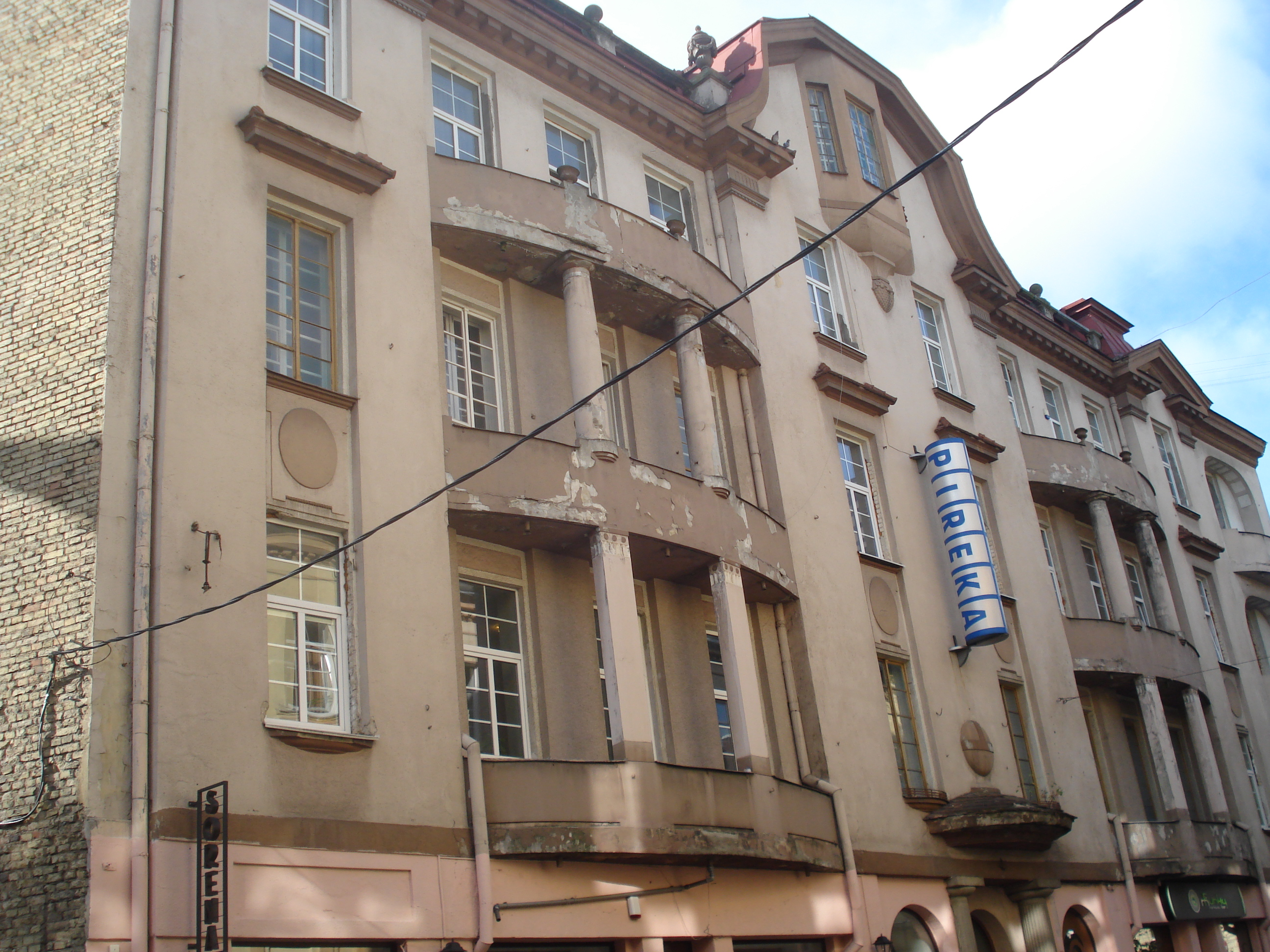 House of Jan Ślizień in (Islandijos g. 4). Build 1913. Architect Tadeusz Maria Rostworowski